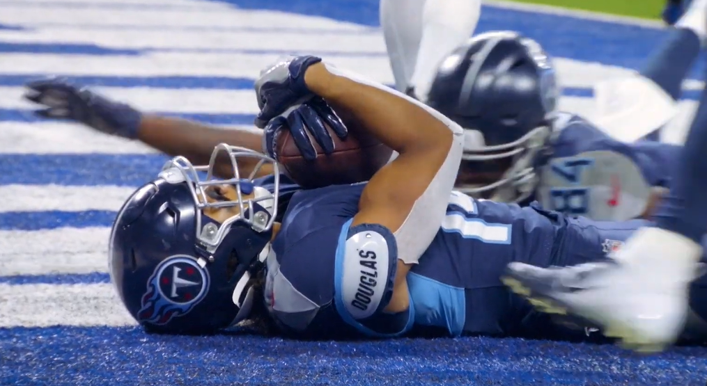 Kalif Raymond 2019. Image from video Kalif Raymond's 4th-Quarter TD Seals Win | Slow-Mo Monday, ~ 00:24.